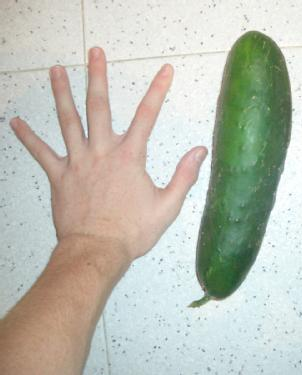 cogombreeee!!!